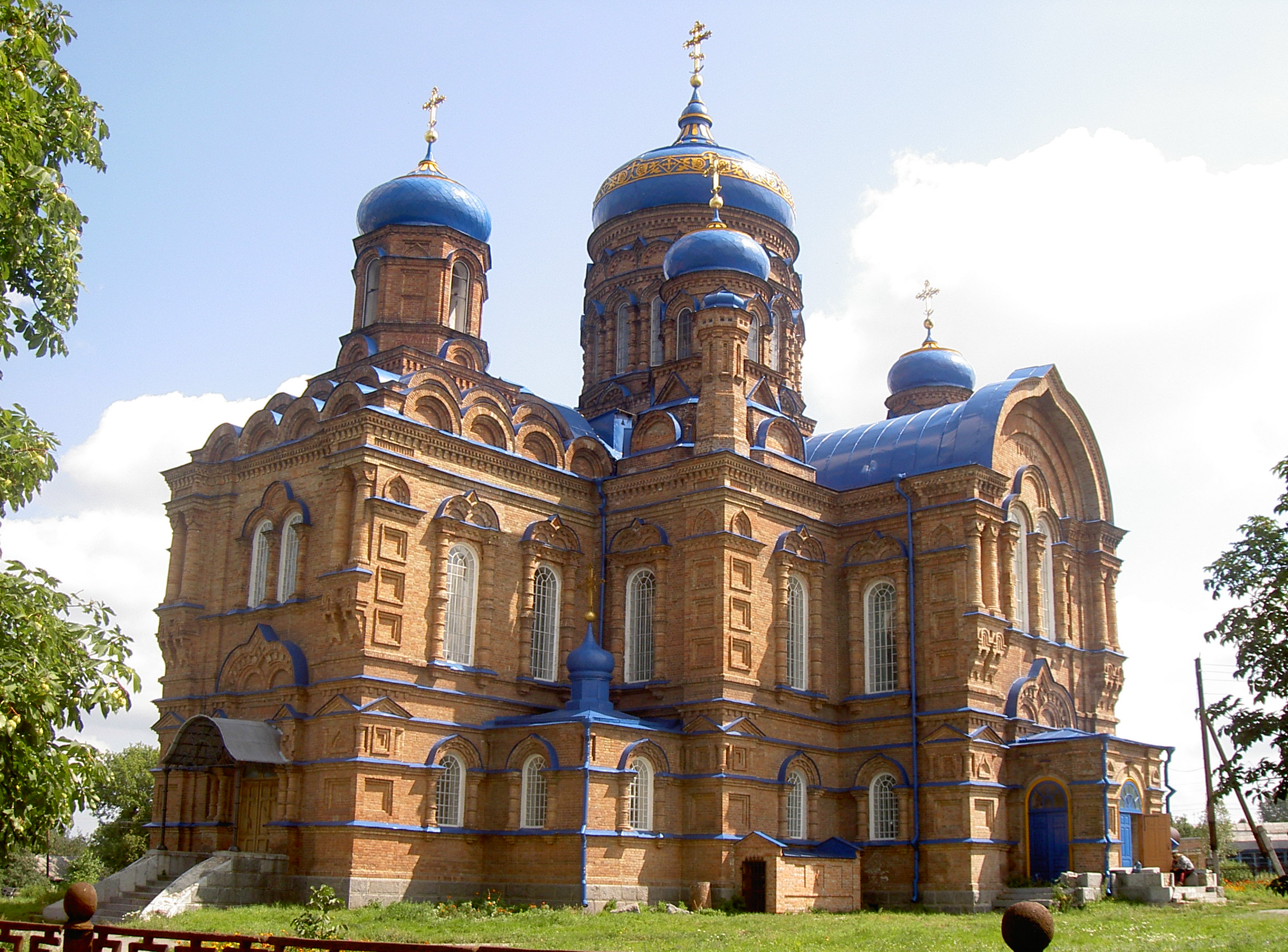 Photography of the Nativity cathedral in Kozelshchyna, Poltava Oblast, Ukraine